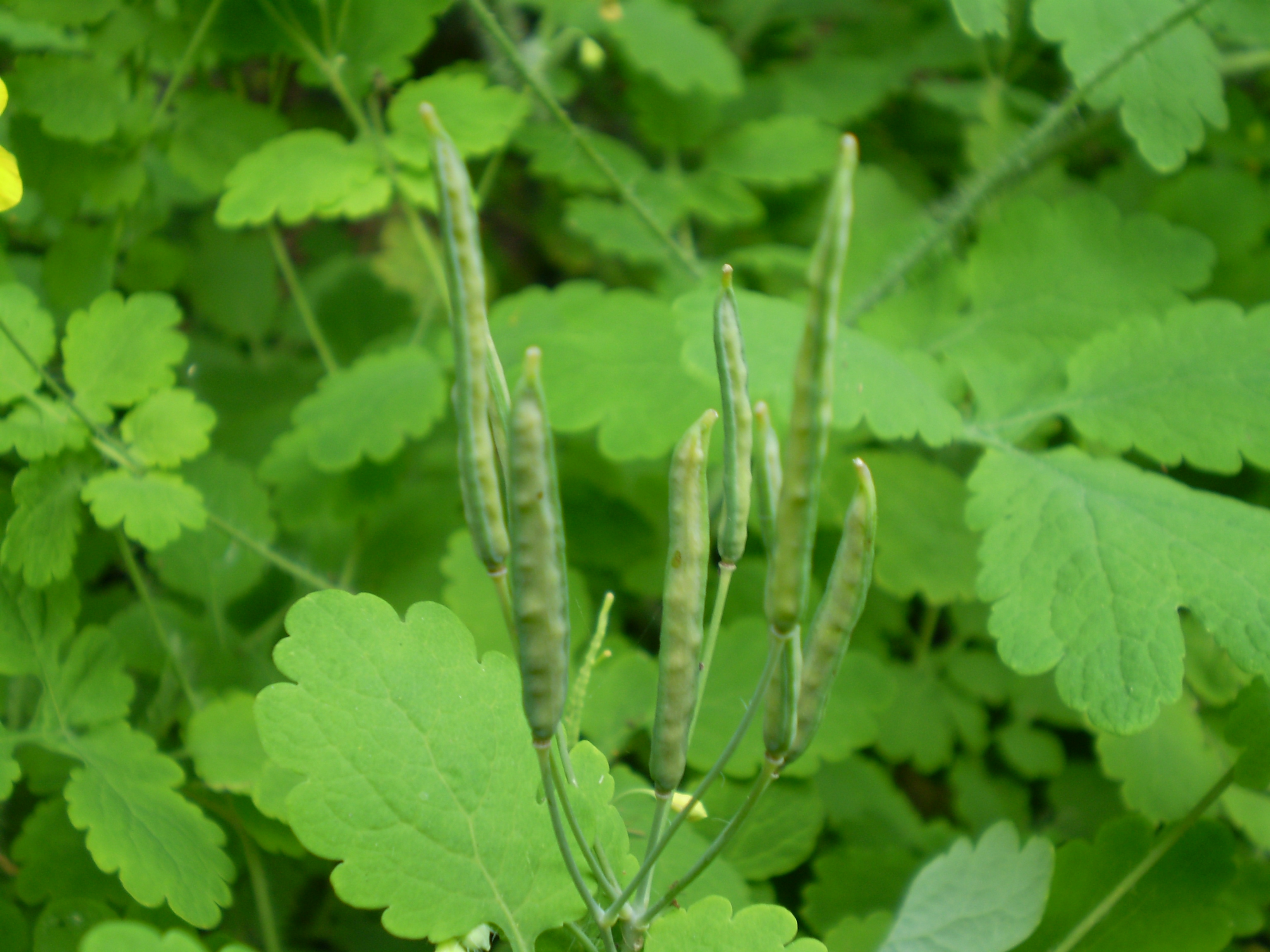 greater celandine